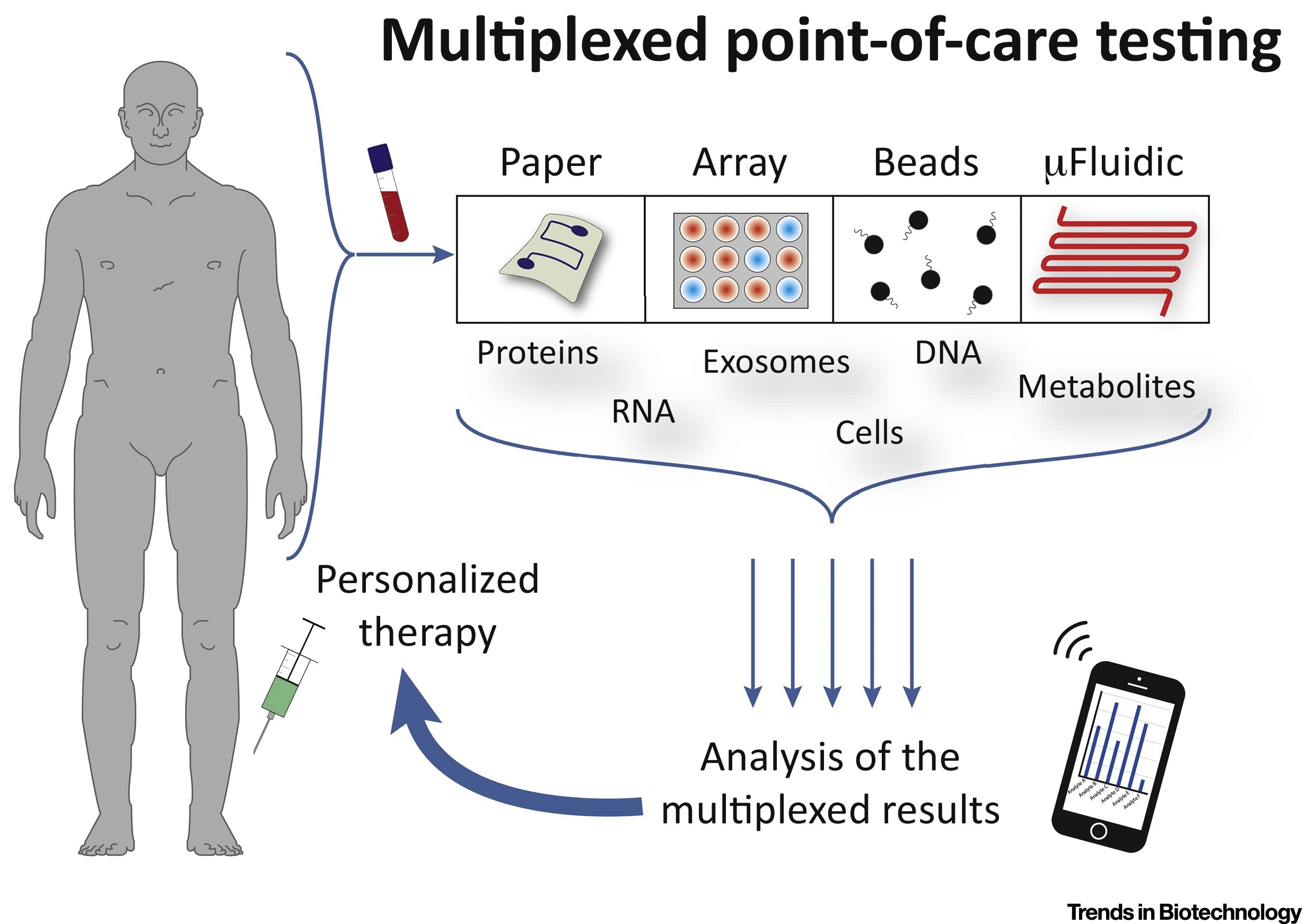 Multiplexed point-of-care testing (xPOCT) requires novel (appropriate, powerful, low-cost and simple) strategies for sampling, analysis and data interpretation. Therefore, it will pave the way for personalized therapies or on-site disease diagnostics in resource-limited settings in the future.